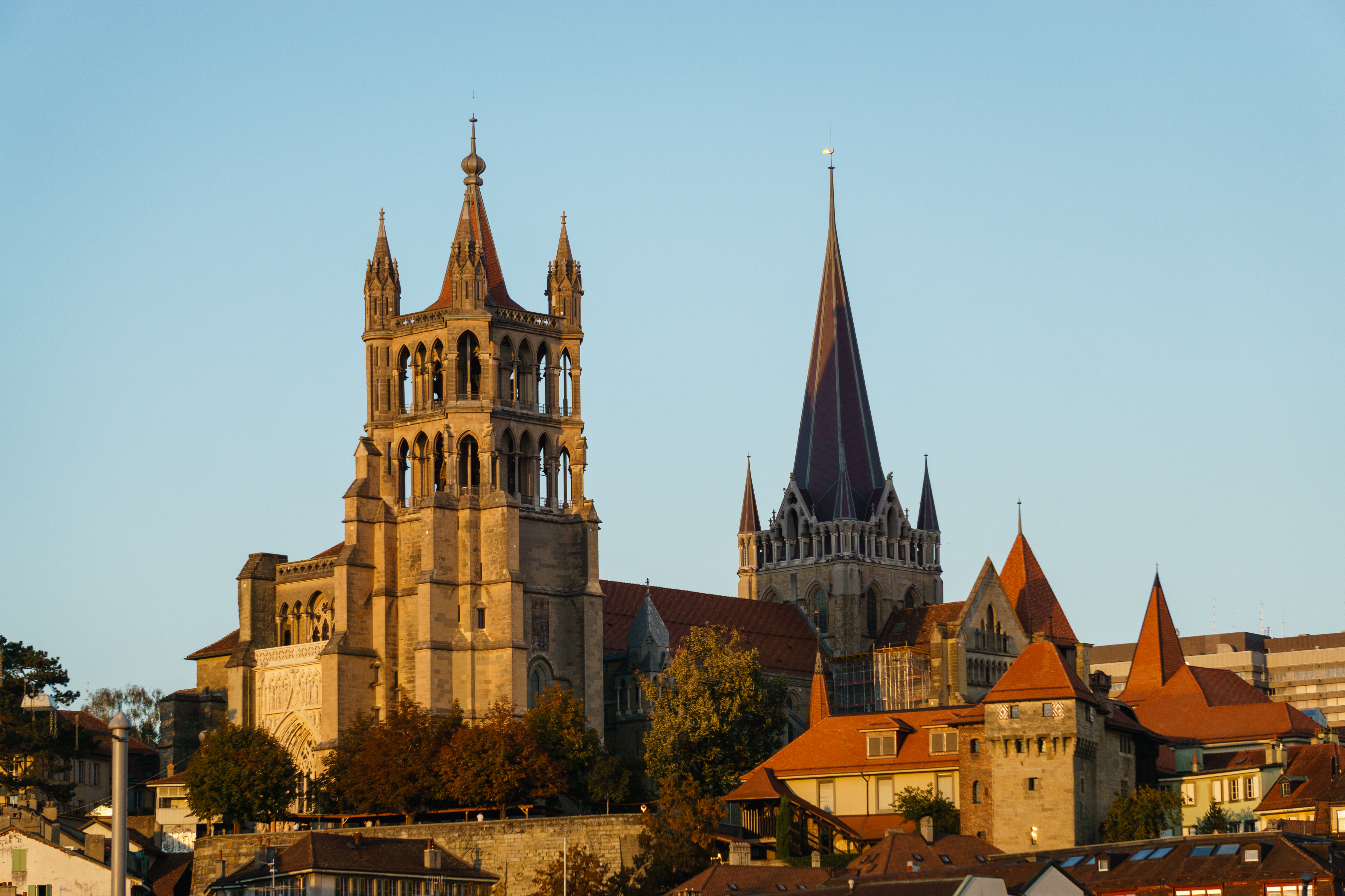 Lausanne Cathedral on the hill, as seen from Lausanne Flon. Below the cathedral is the building of the historical museum.